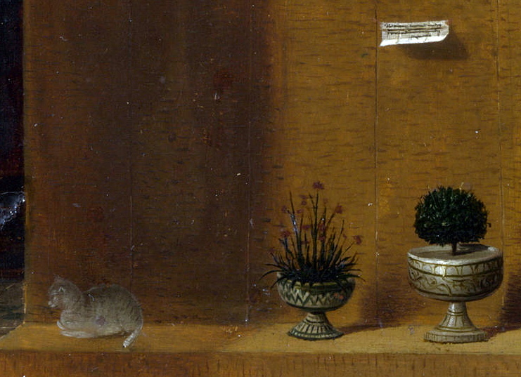 Antonello's Saint Jerome in his study detail